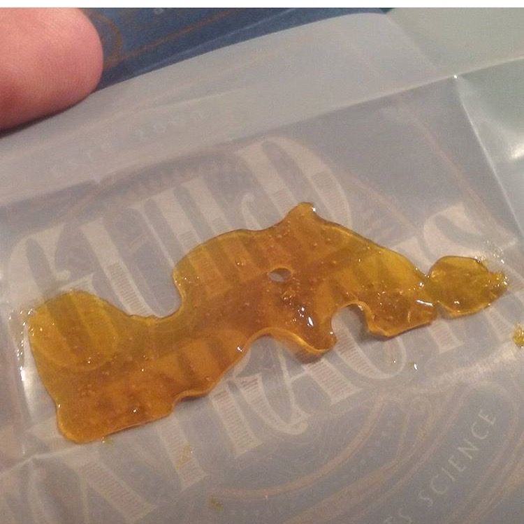 Hash oil in the form of shatter made by California based Guild Extracts